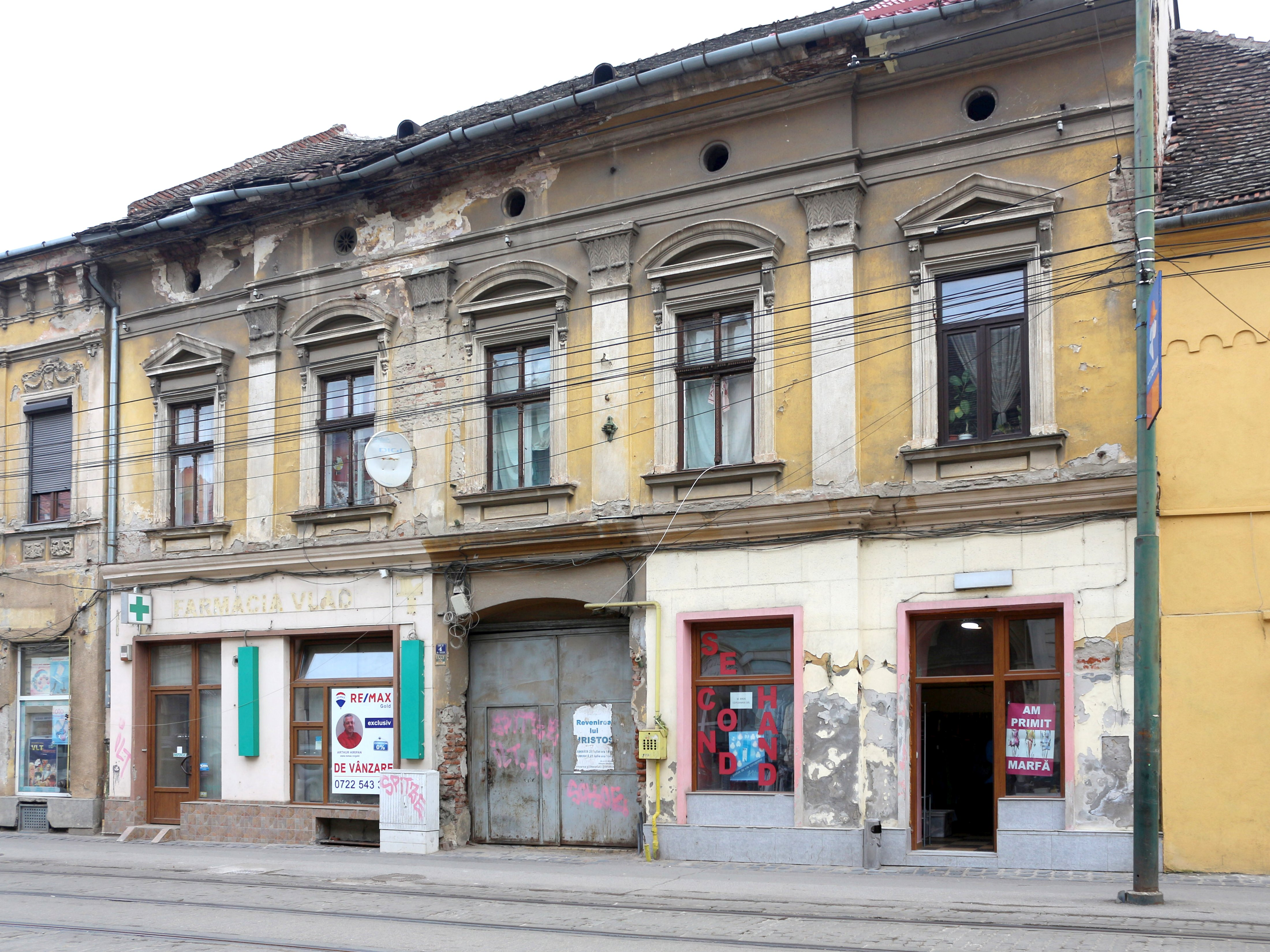 House in Timișoara, Dacilor Str. no. 4, built 19-th century.